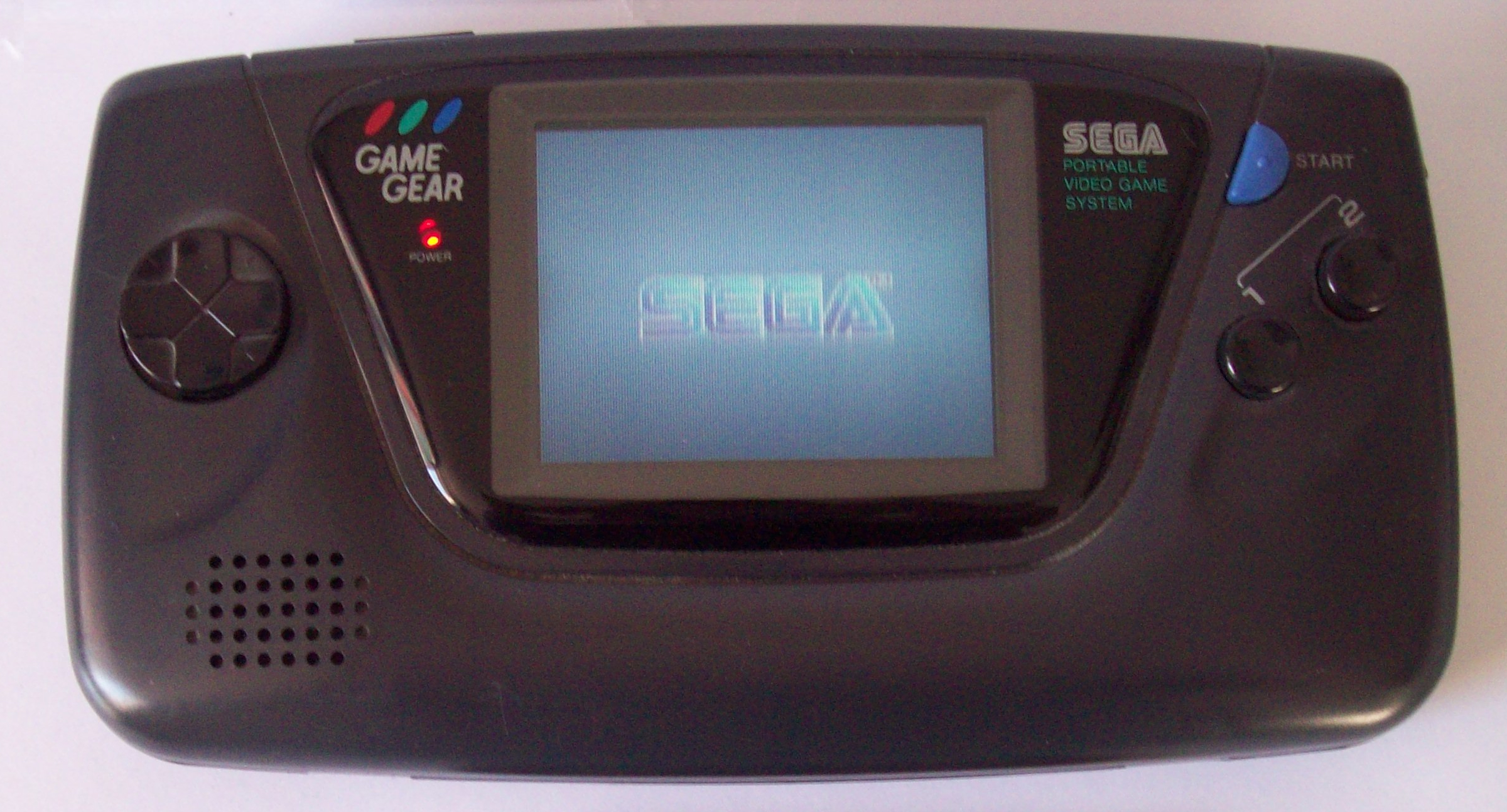 Sega GameGear